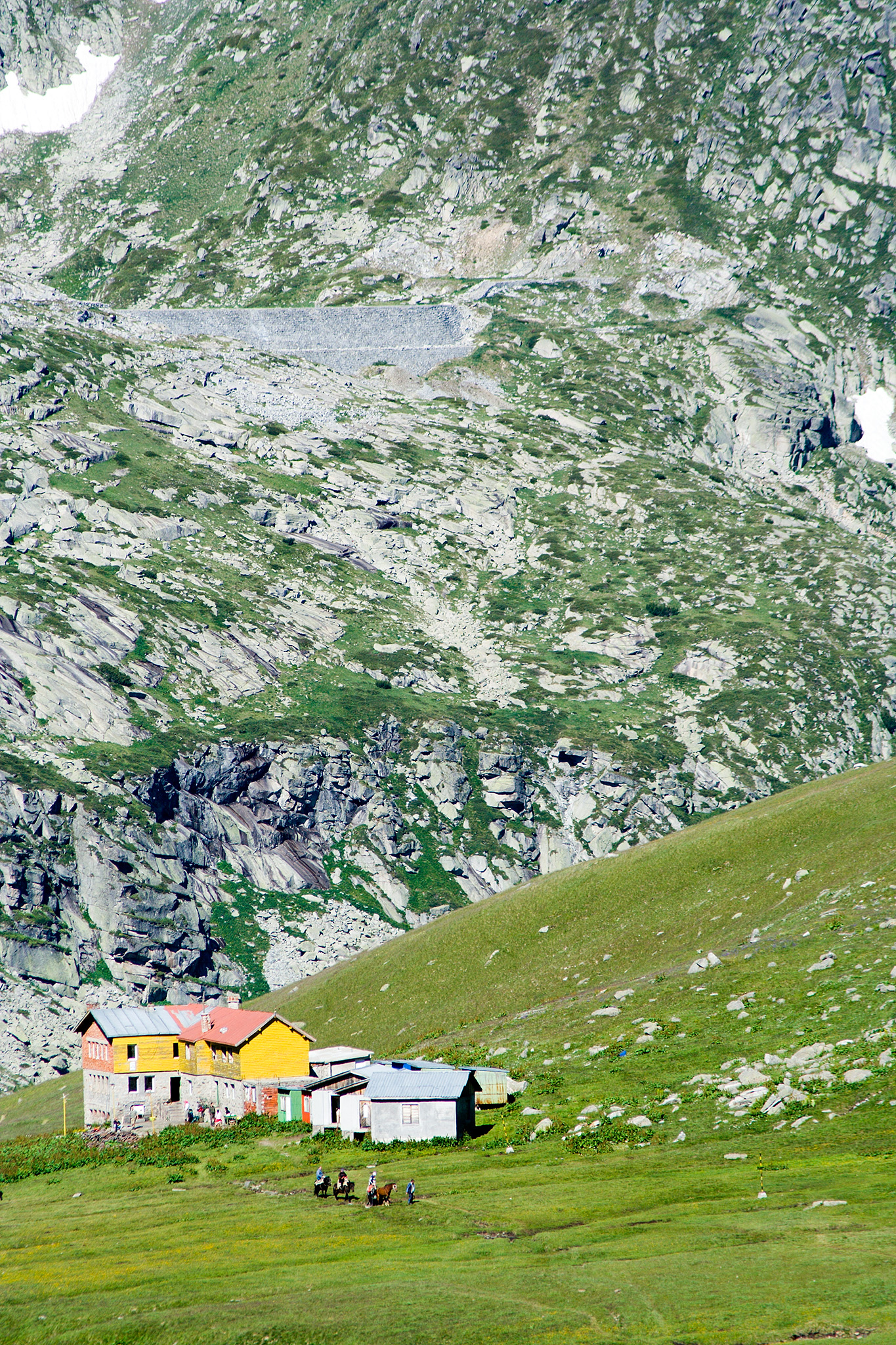 Ivan Vazov hut, Rila mountain, Bulgaria